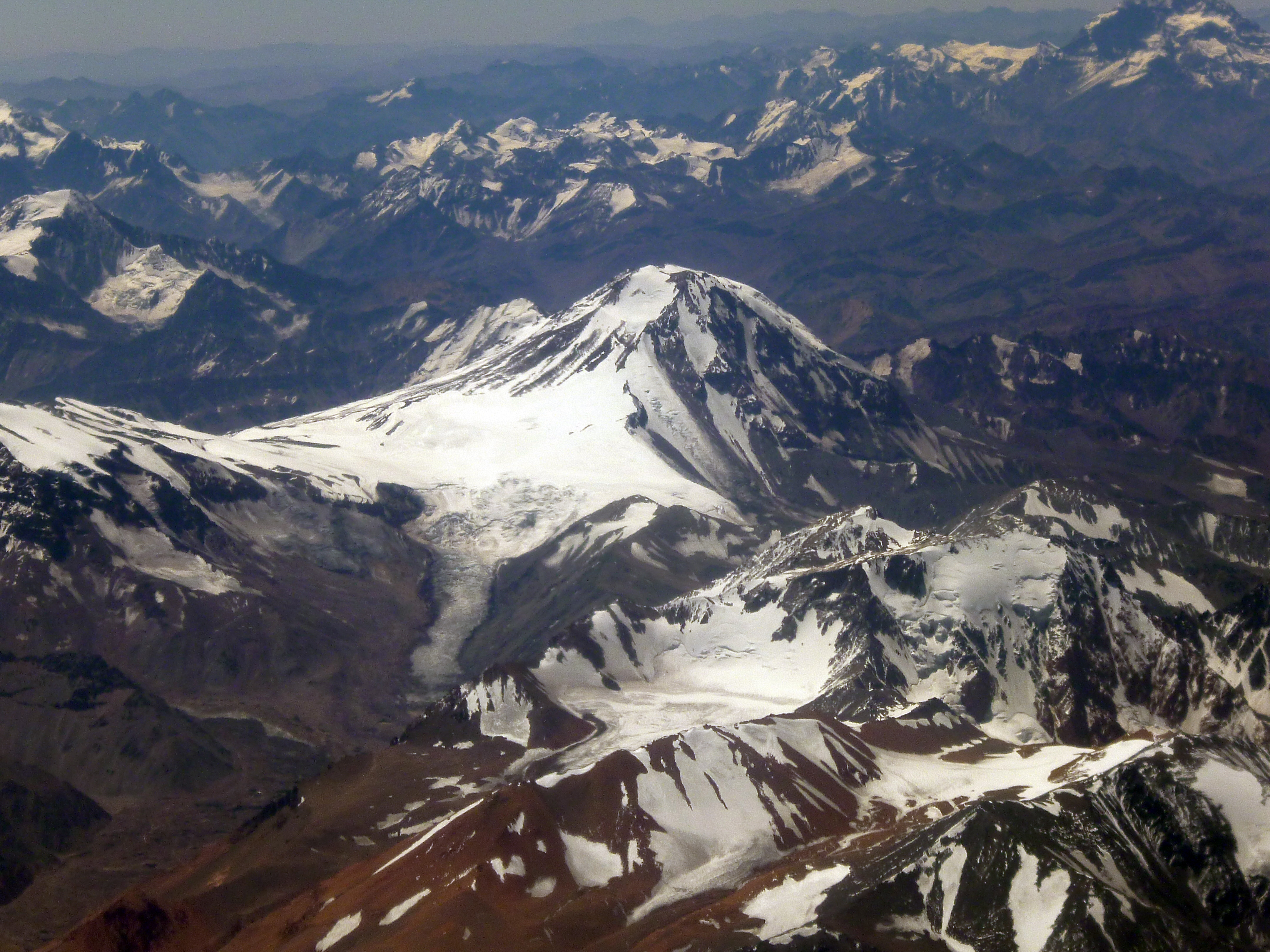 Tupungato volcano in Chile/Argentina border.